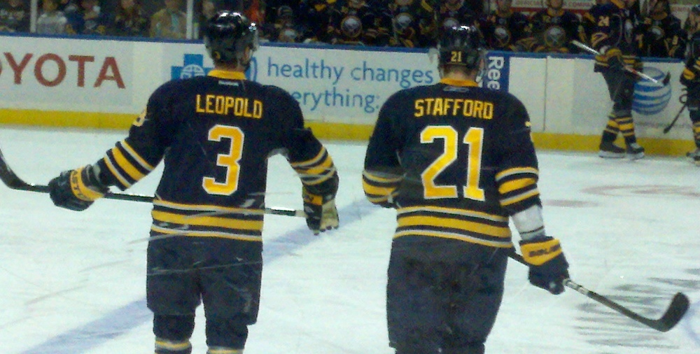 Jordan Leopold with Drew Stafford during a Buffalo Sabres game.